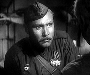 Grigory Pluzhnik in film Son of the Regiment (1946).